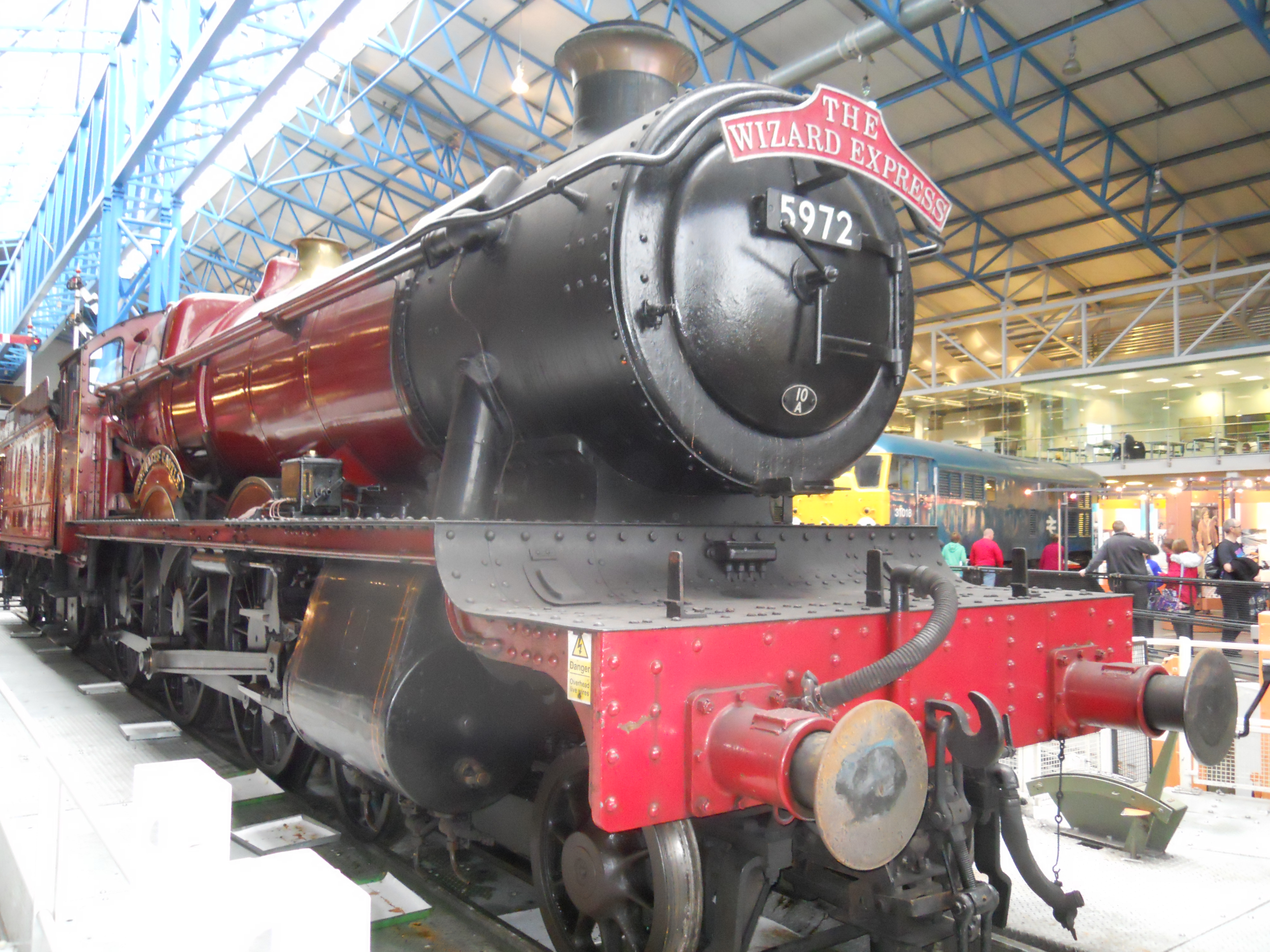 Seen on display inside the Great Hall at the National Railway Museum in York on Saturday 7th April